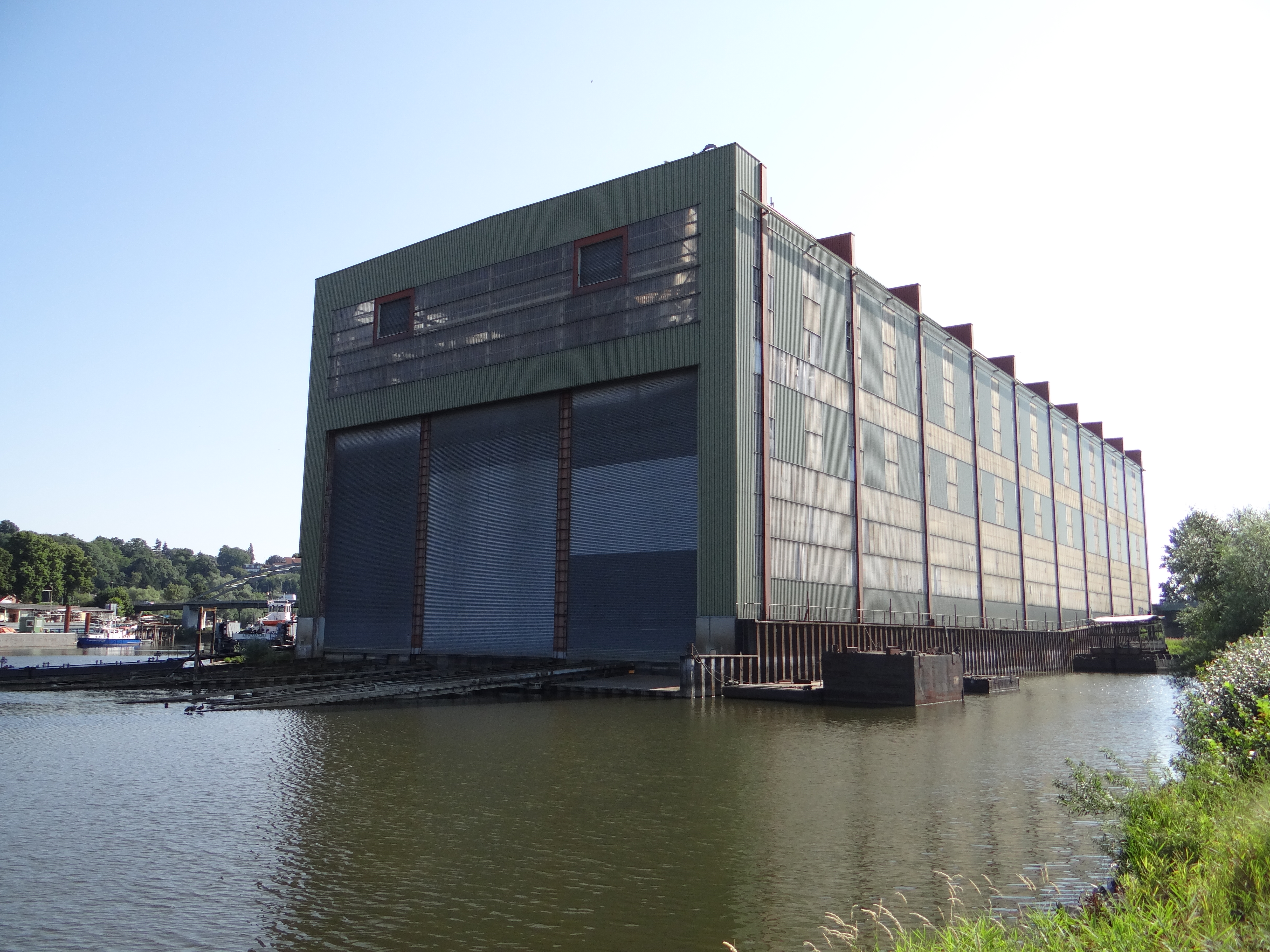 Construction hall of Hitzler shipyard, Lauenburg, Germany.